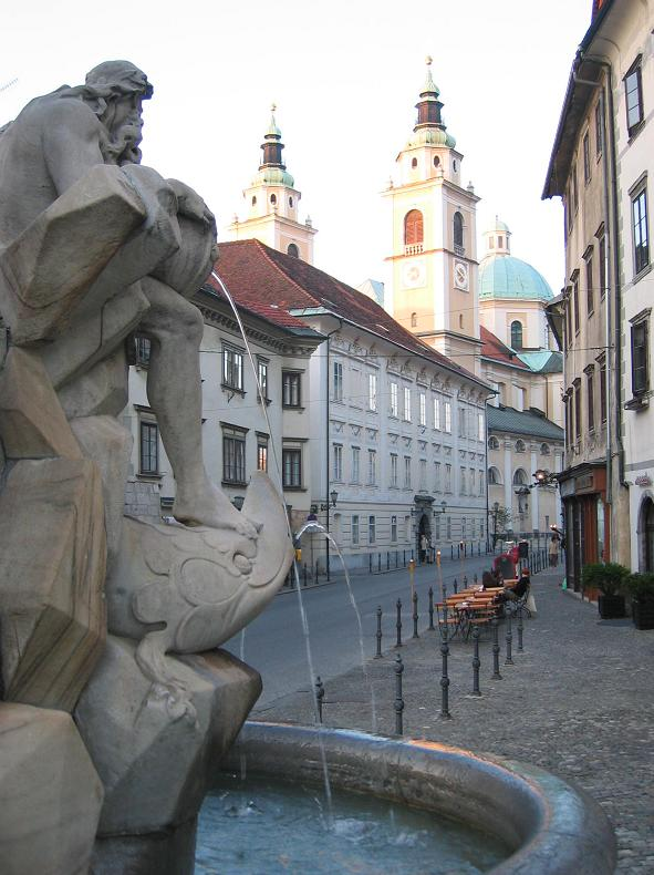 F. Robba fountain (Fountain of Carniolian rivers), Ljubljana - behind it cathedral of st. Nicholas photo:Ziga 18:45, 26 April 2006 (UTC)